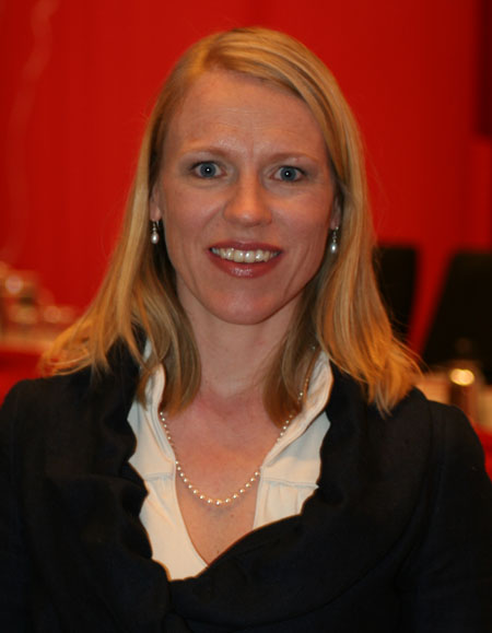 Anniken Huitfeldt, member of Stortinget (the Norwegian Parliament) 2005 -, and Minister of Children and Equality